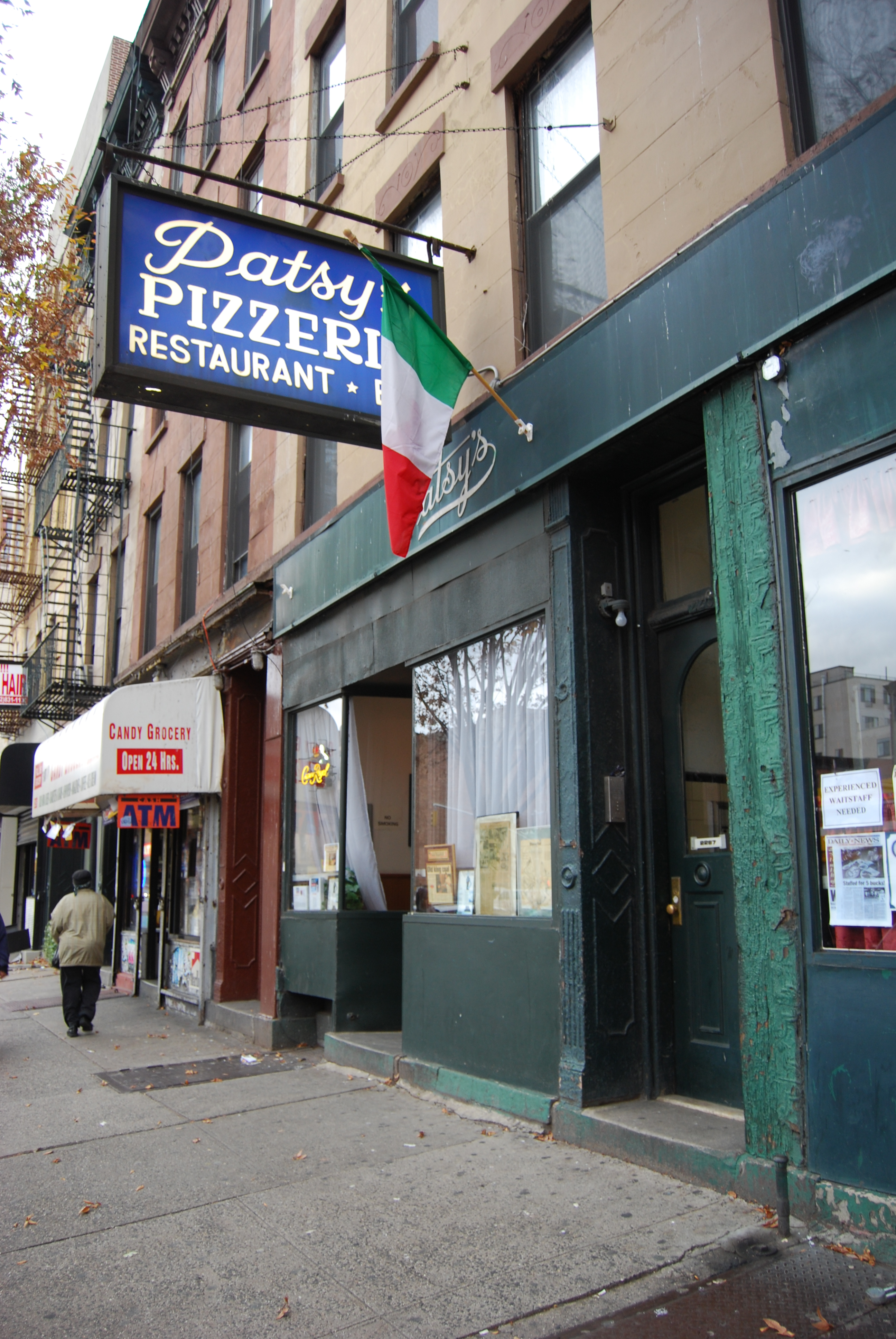 2287 1st Avenue, East Harlem, New York.